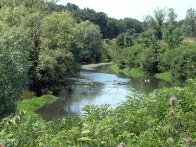 The Tur River at Panyola